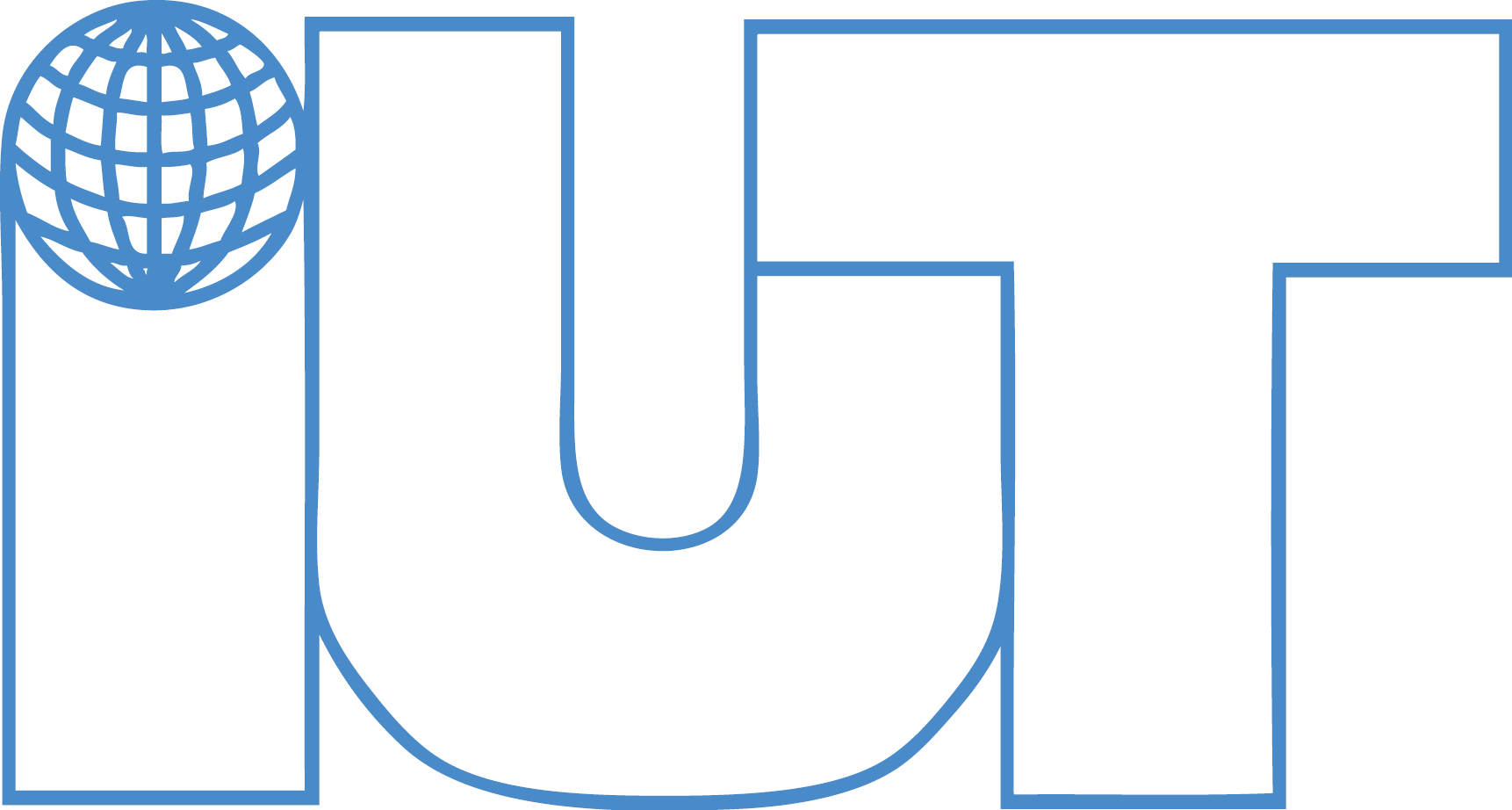 Logo of International Union of Tenants (IUT)